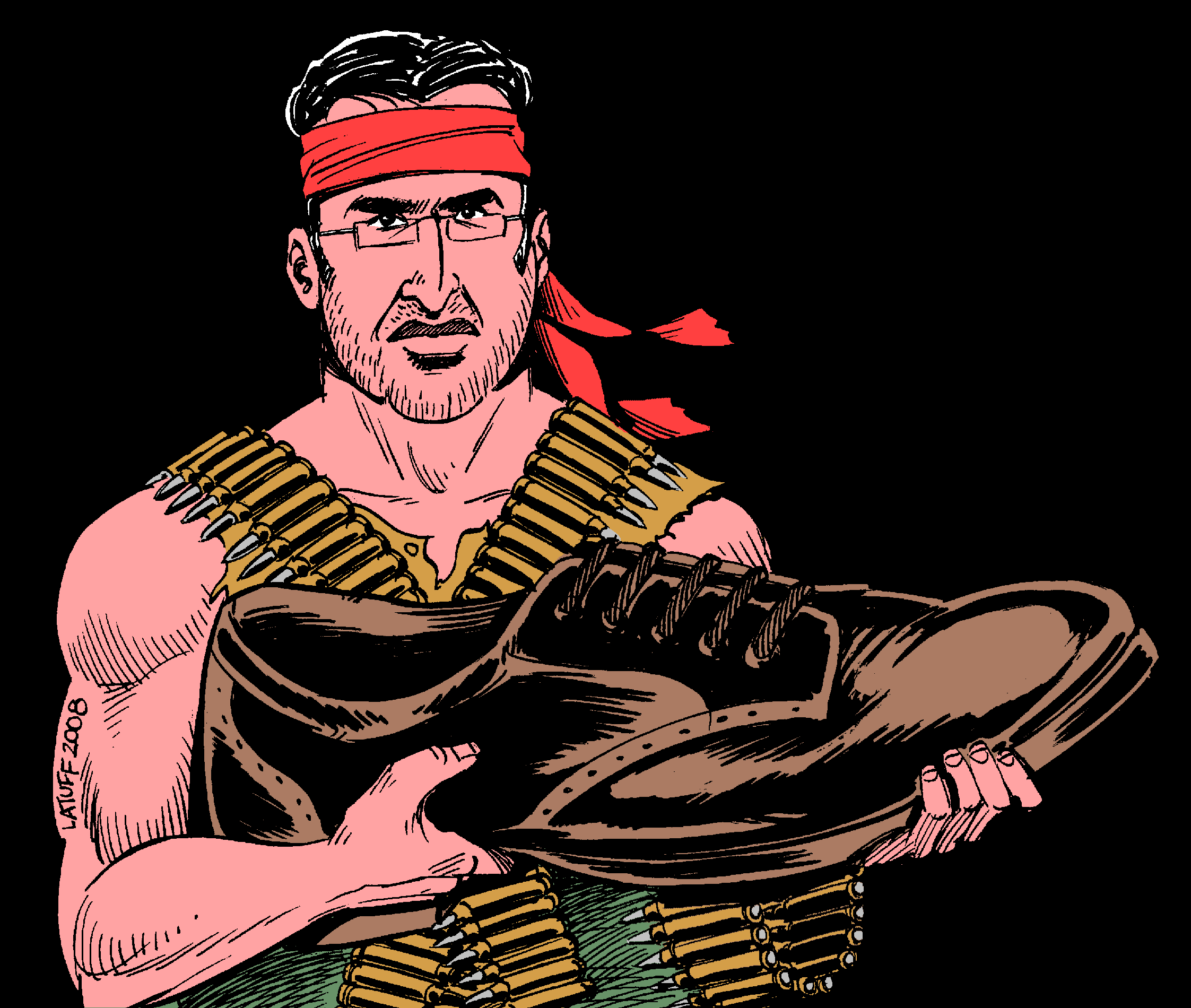 "On behalf of journalist Muntazer al-Zaidi, Bush shoe-thrower and hero of the Iraqi people."